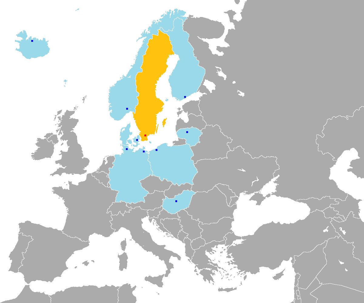 kristianstads friends